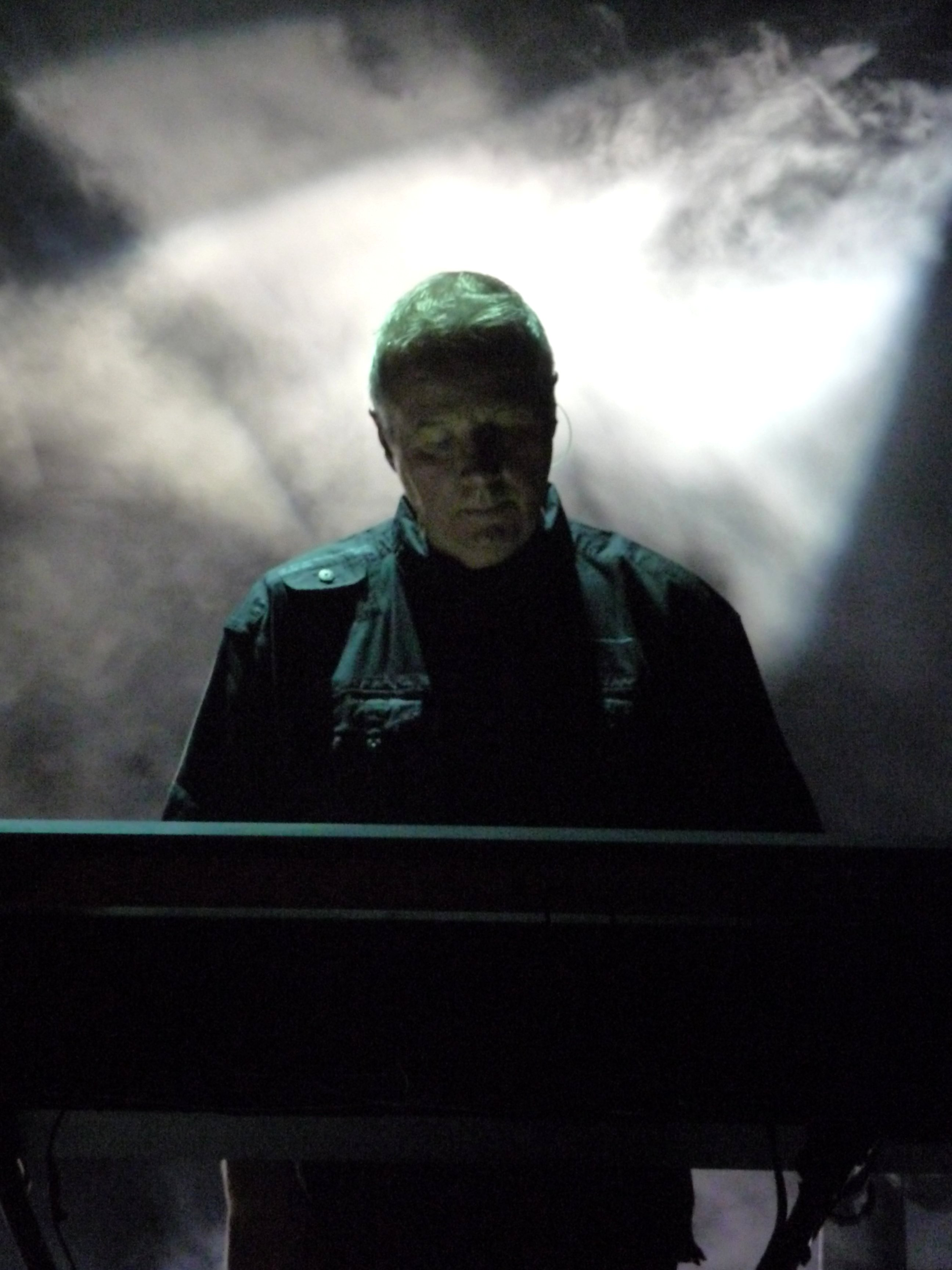 Billy Currie playing „Return to Eden“ tour concert at „Theater am Marientor“, Duisburg, Germany